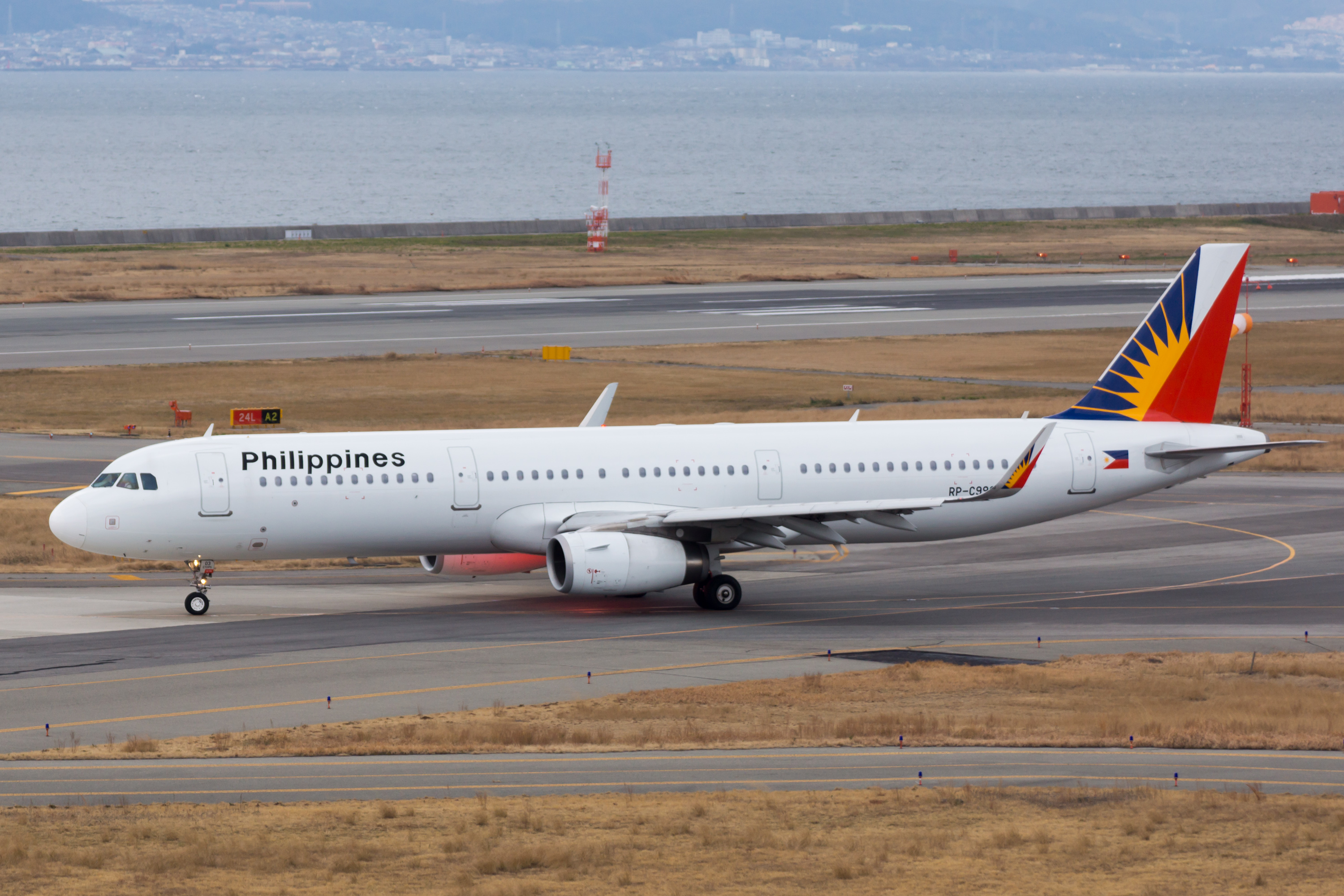 Philippine Airlines / フィリピン航空 Airbus A321-231 RP-C9903 PR409, Departed to Cebu Osaka Kansai Int'l Airport